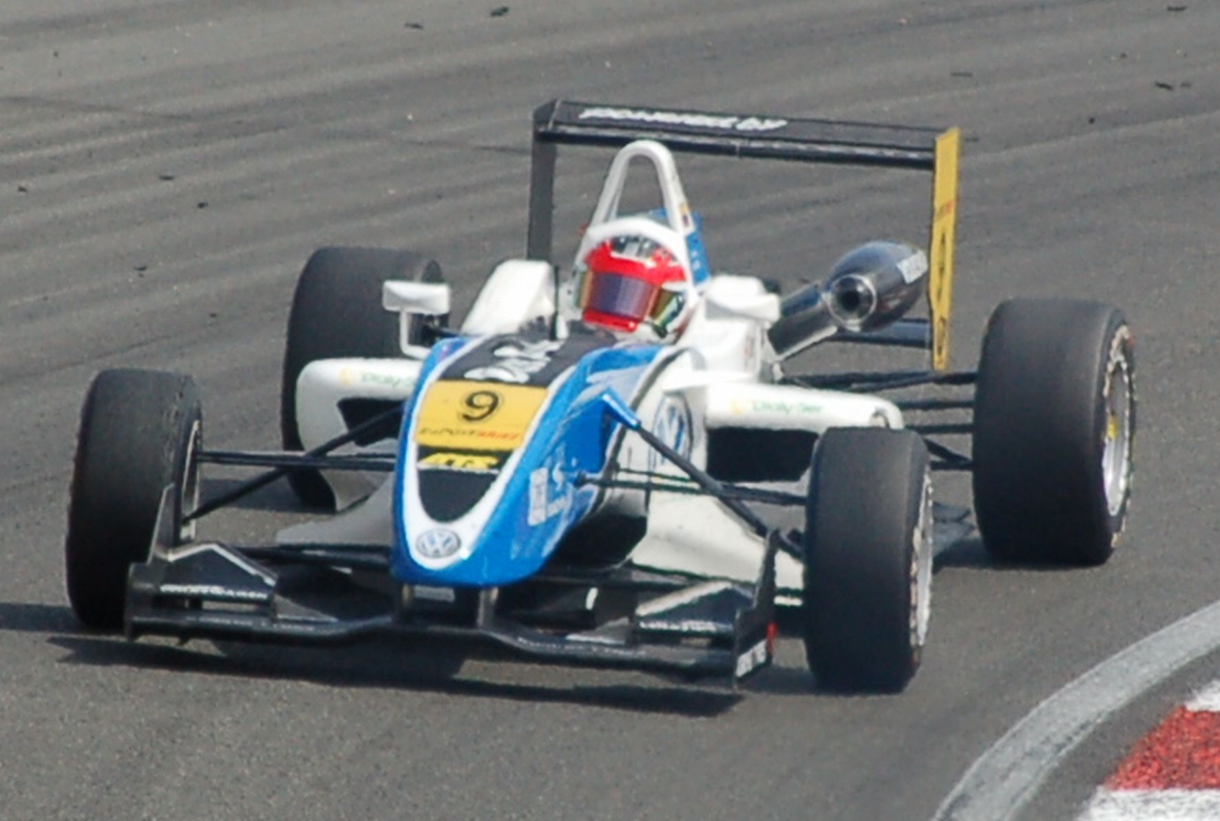 Carlos Muñoz at Zandvoort 2011